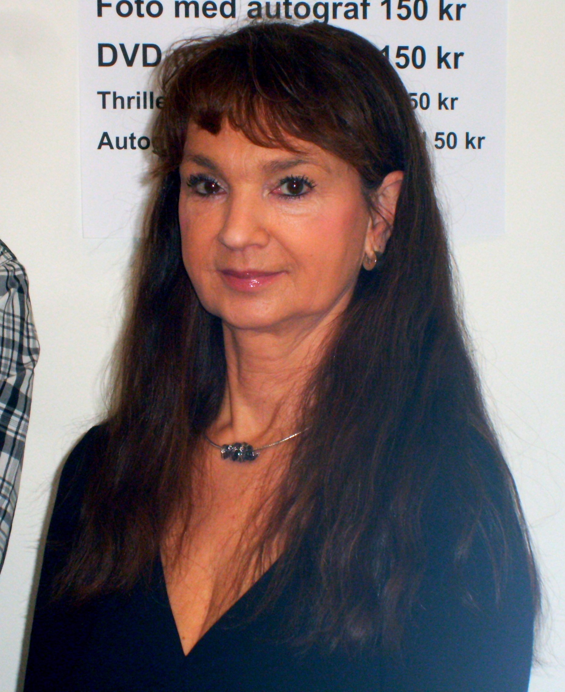 Christina Lindberg, Swedish actress at Stockholm International Fairs 2012.